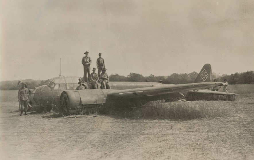 2-2 forestry JU88